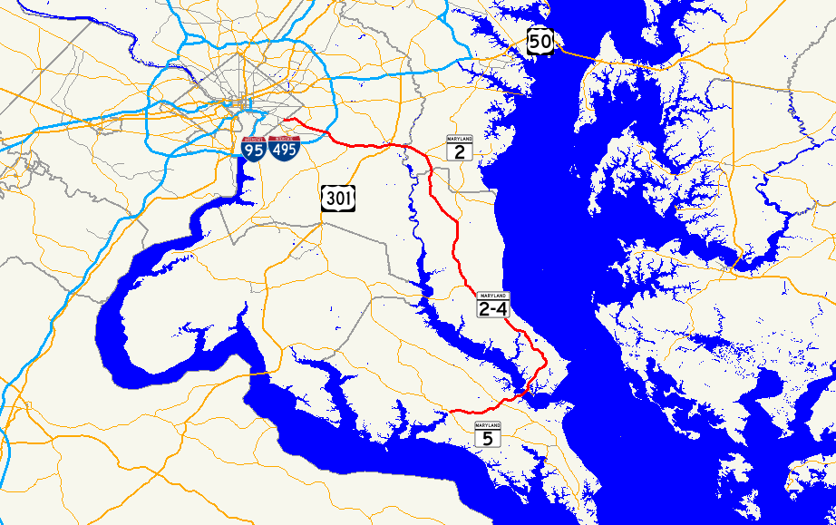 Map of Maryland Route 4